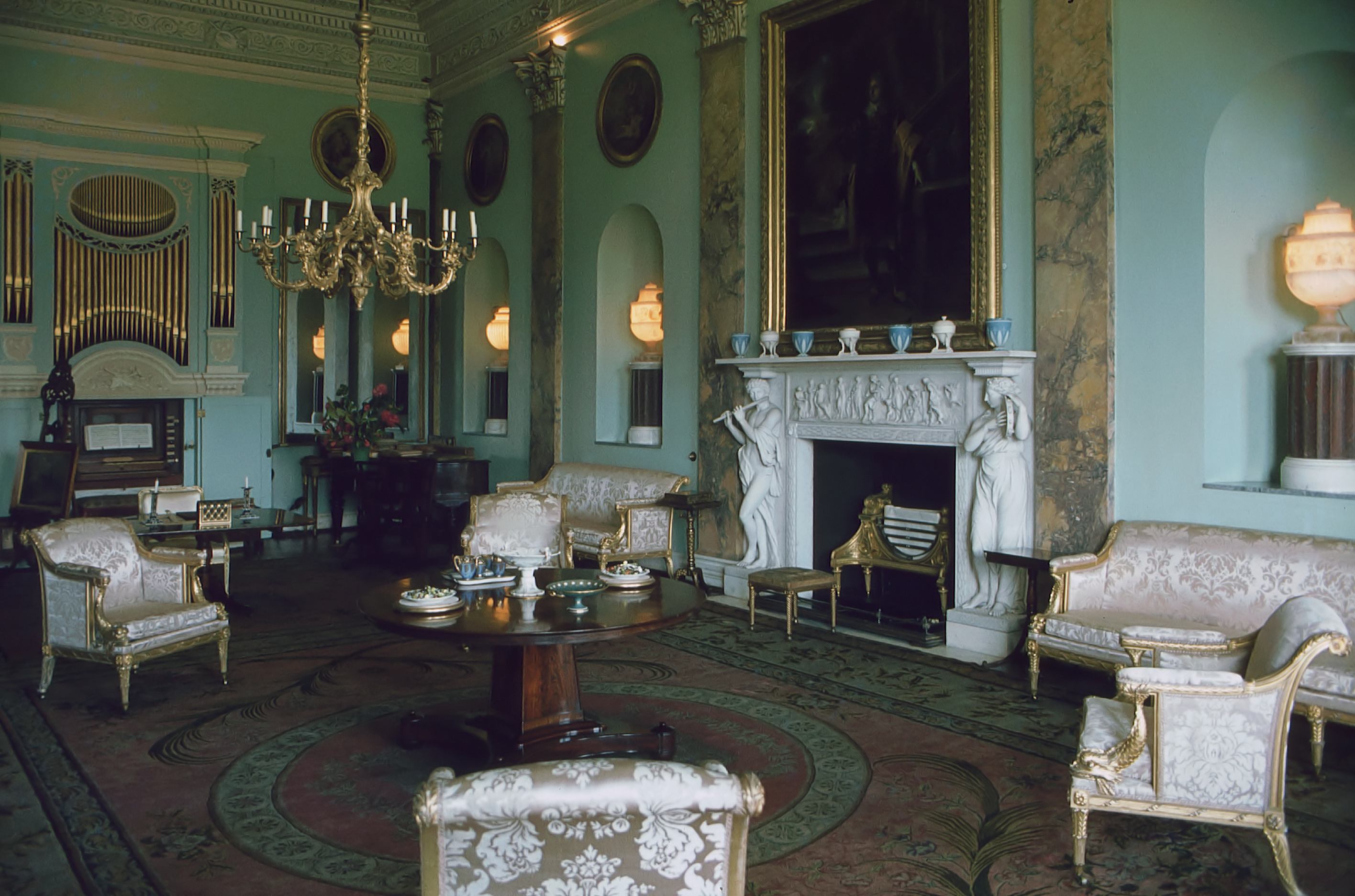 Powderham Castle - Music Room, South Devon / England